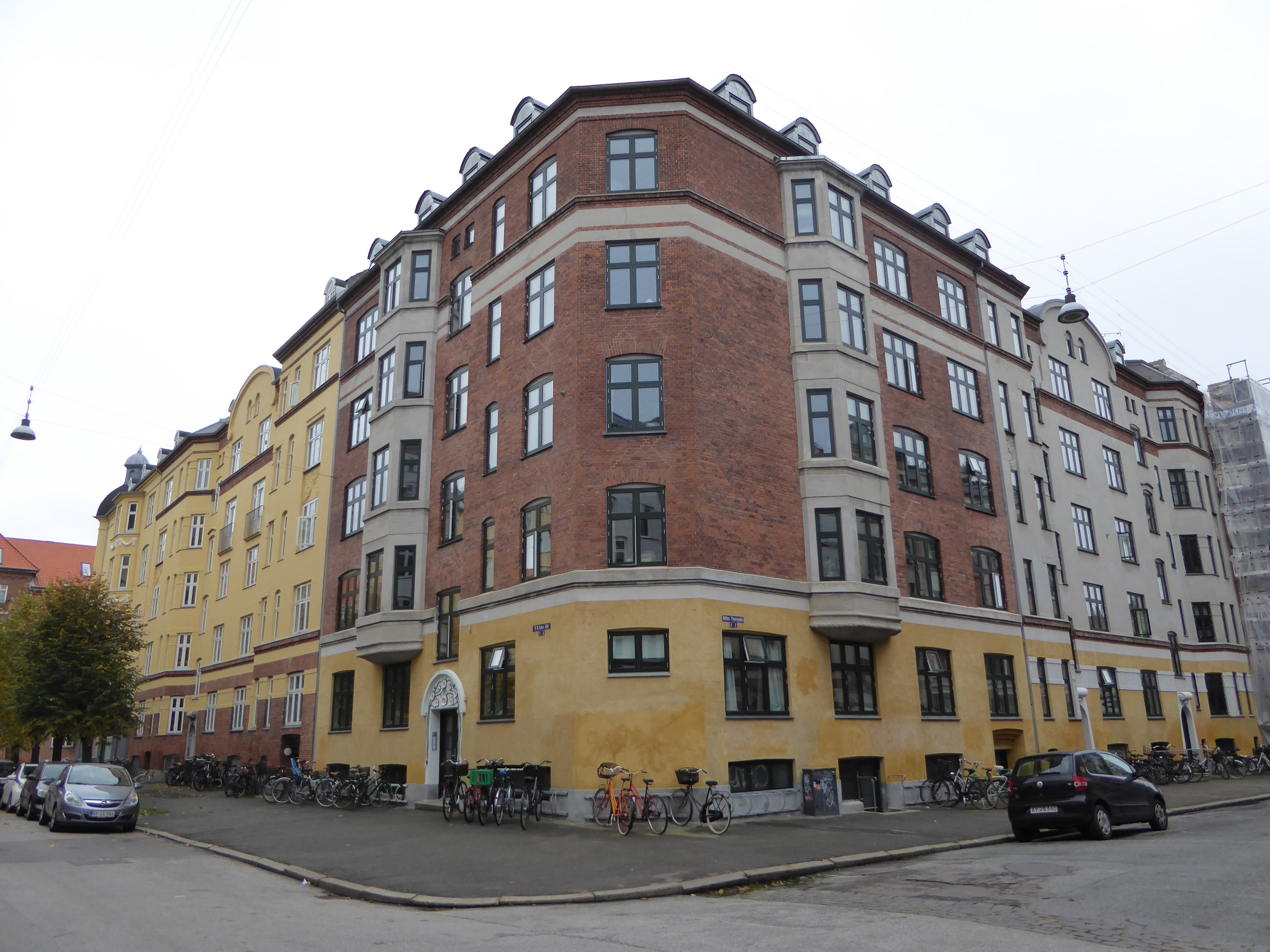 Apartment building at the corner of P.D. Løvs Allé and Odins Tværgade in Nørrebro in Copenhagen.